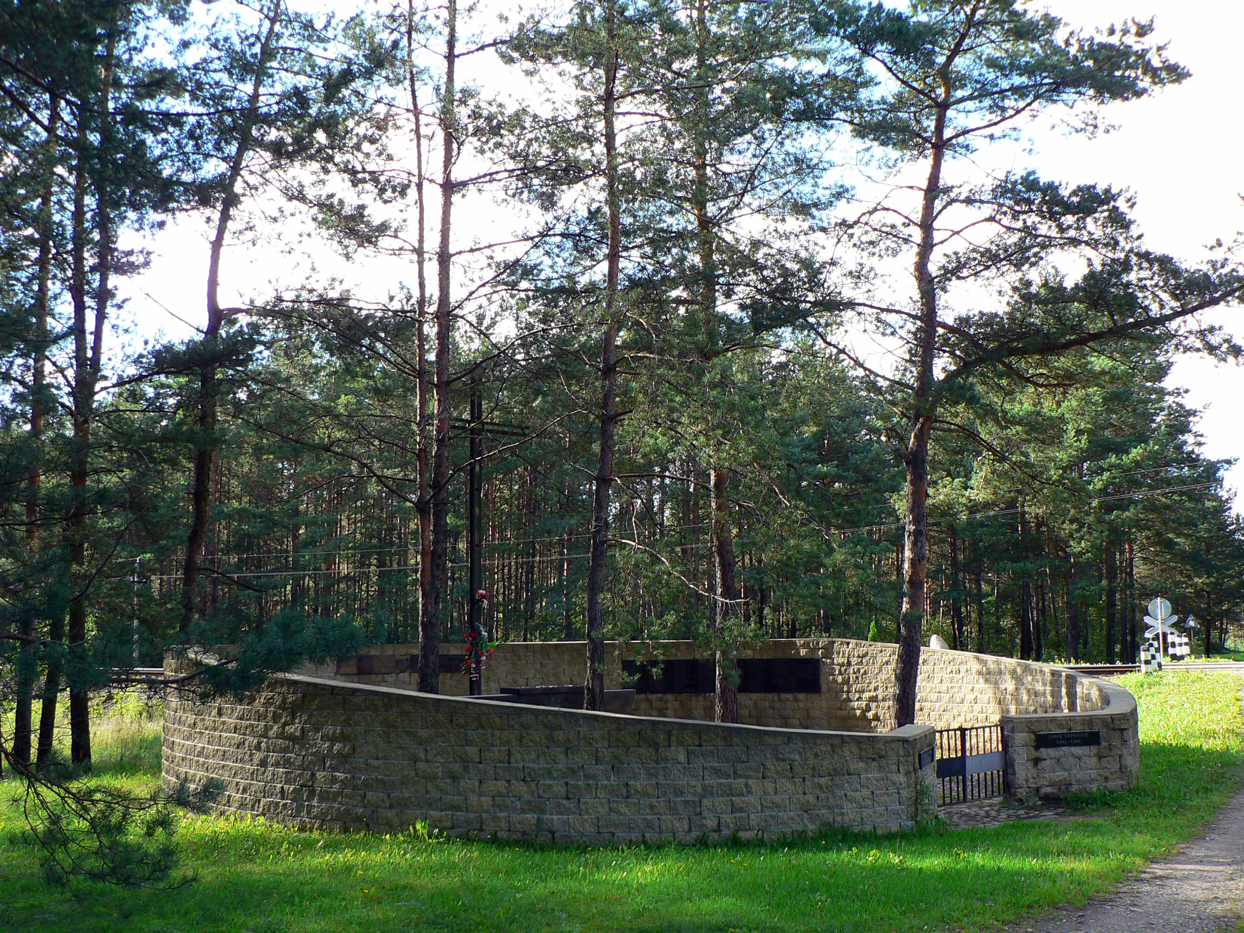 Monument commemorating Poles murdered in Paneriai massacre, Paneriai, Vilnius, Lithuania